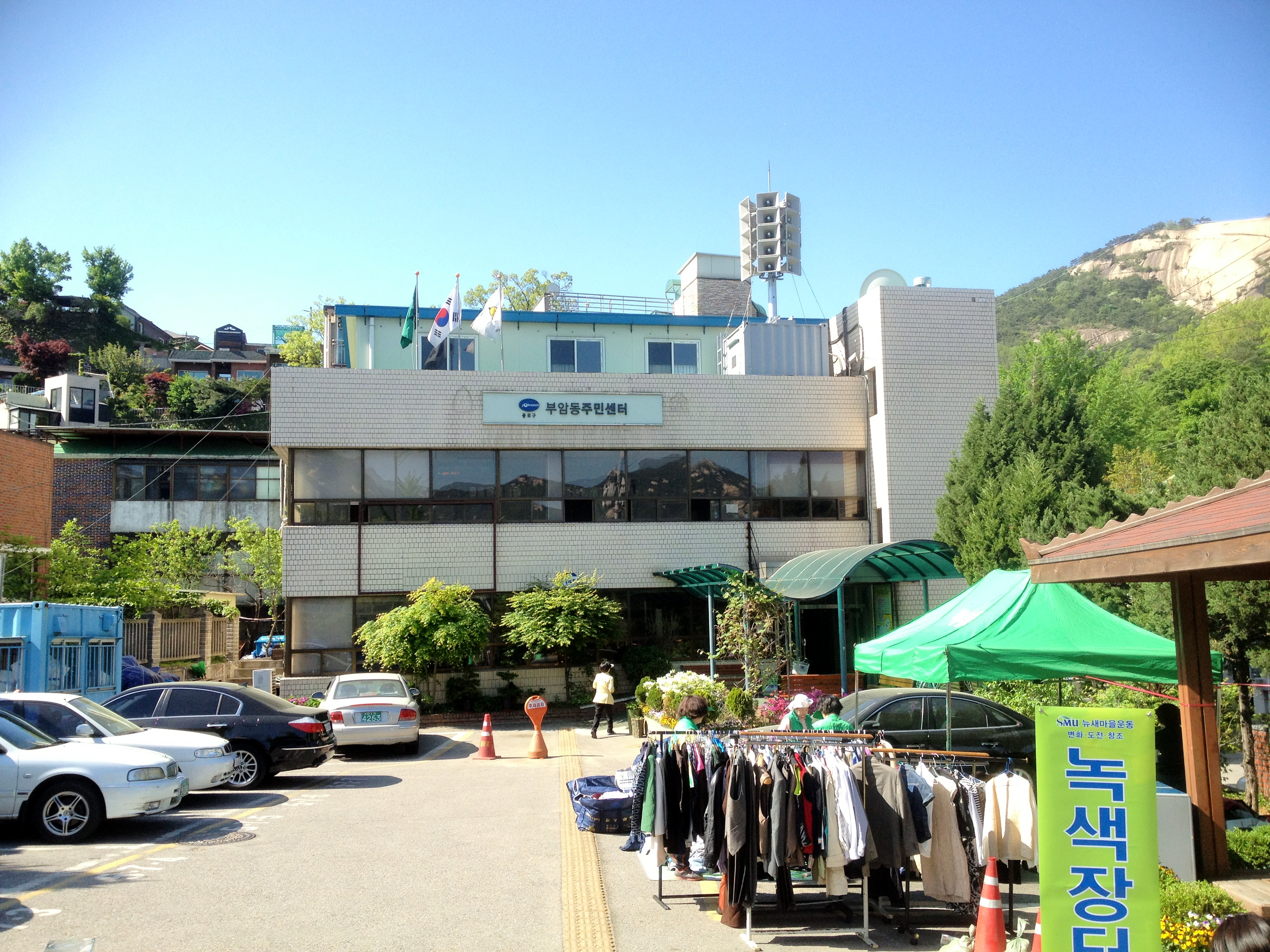 Buam-dong Comunity Service Center(Jongno-gu)